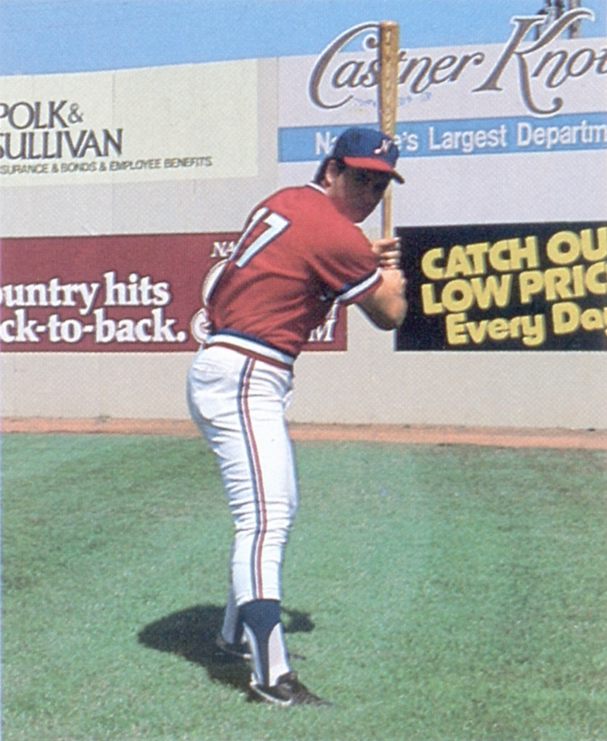 Outfielder Dan Pasqua of the 1984 Nashville Sounds Minor League Baseball team of the Southern League